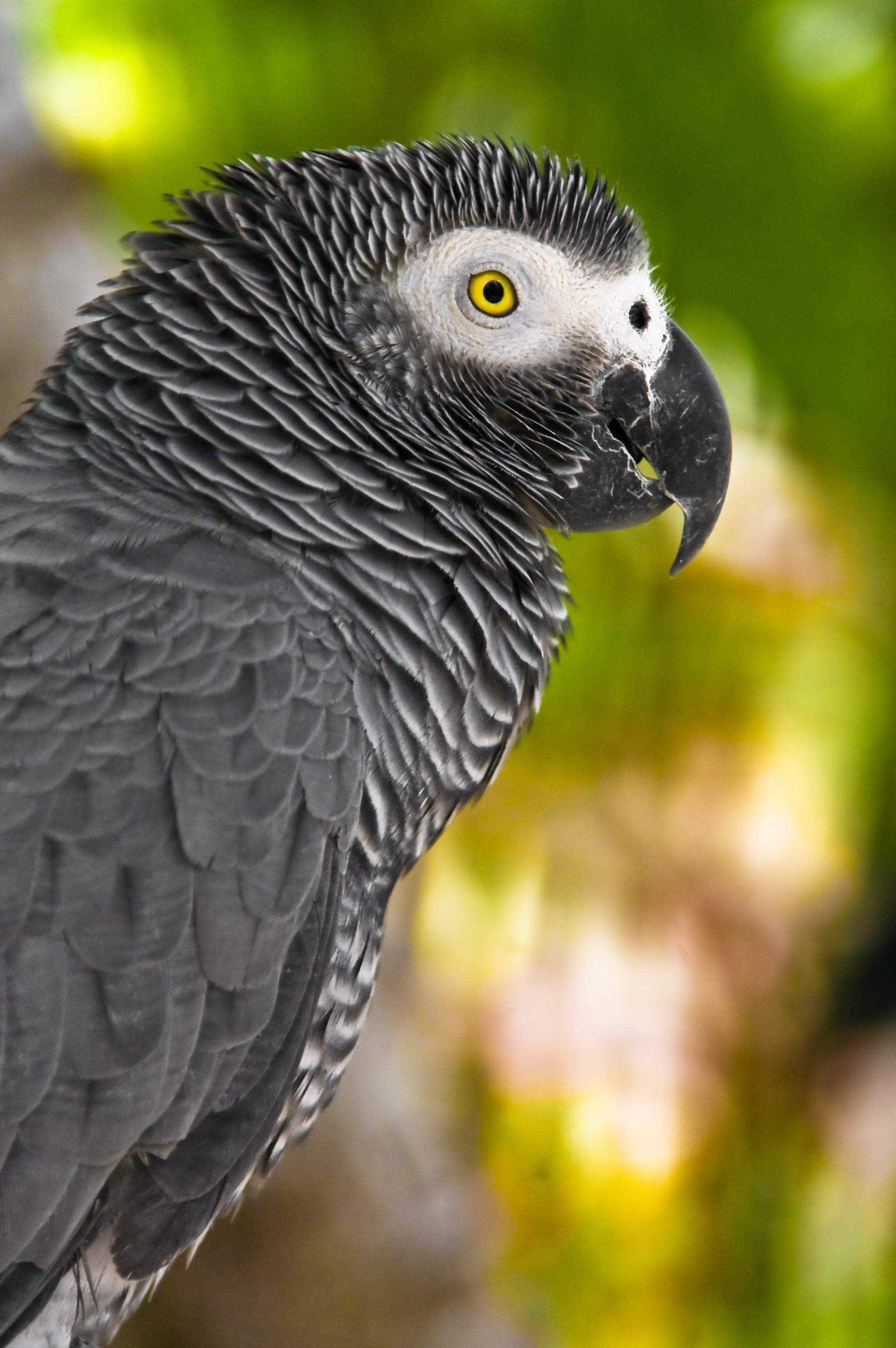 A Congo African Grey Parrot, taken in Bali Bird Park, Ubud, Indonesia